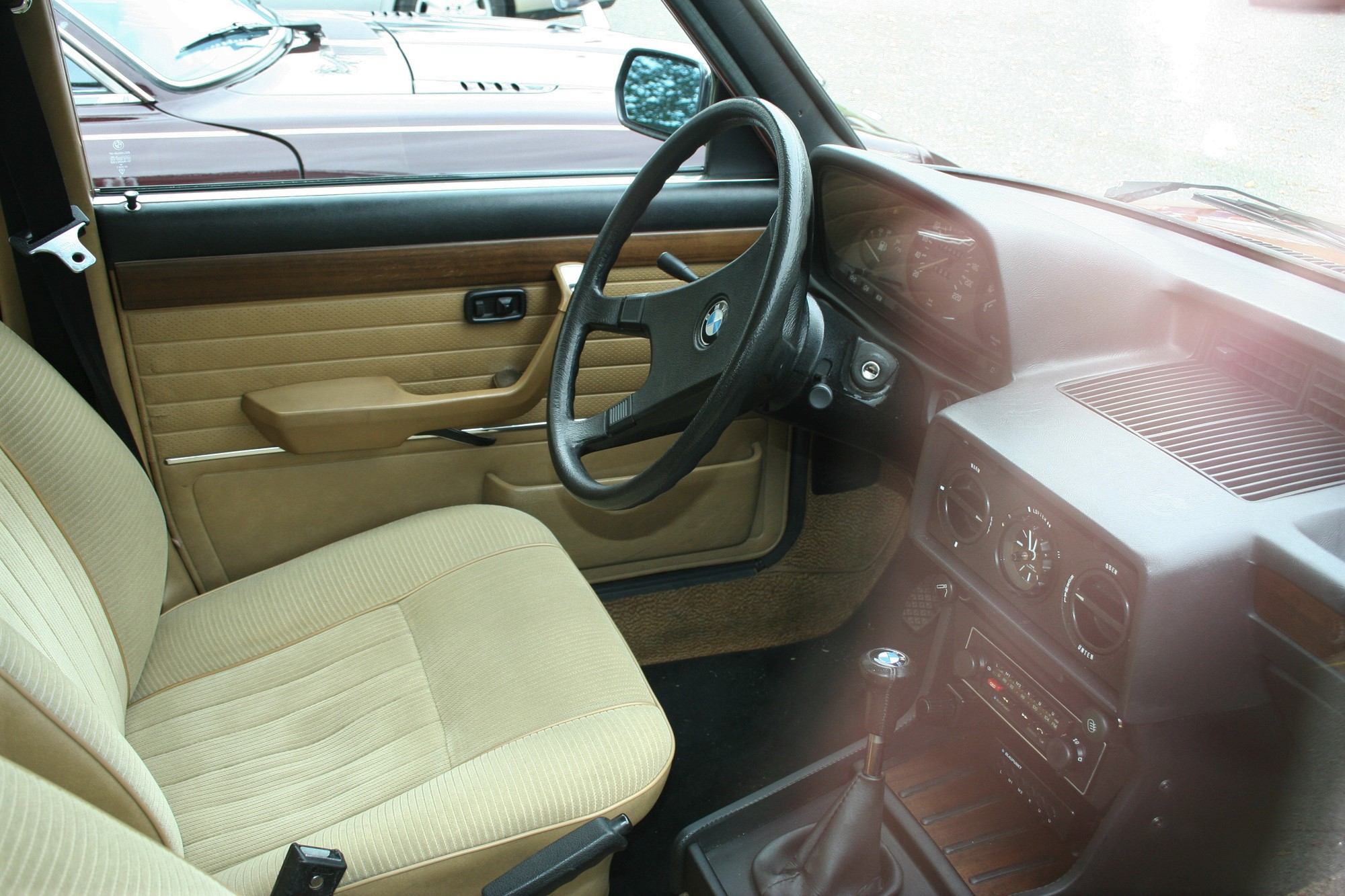 BMW E12